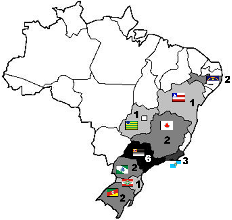 Map showing the states who have teams in Campeonato Brasileiro Série A 2009